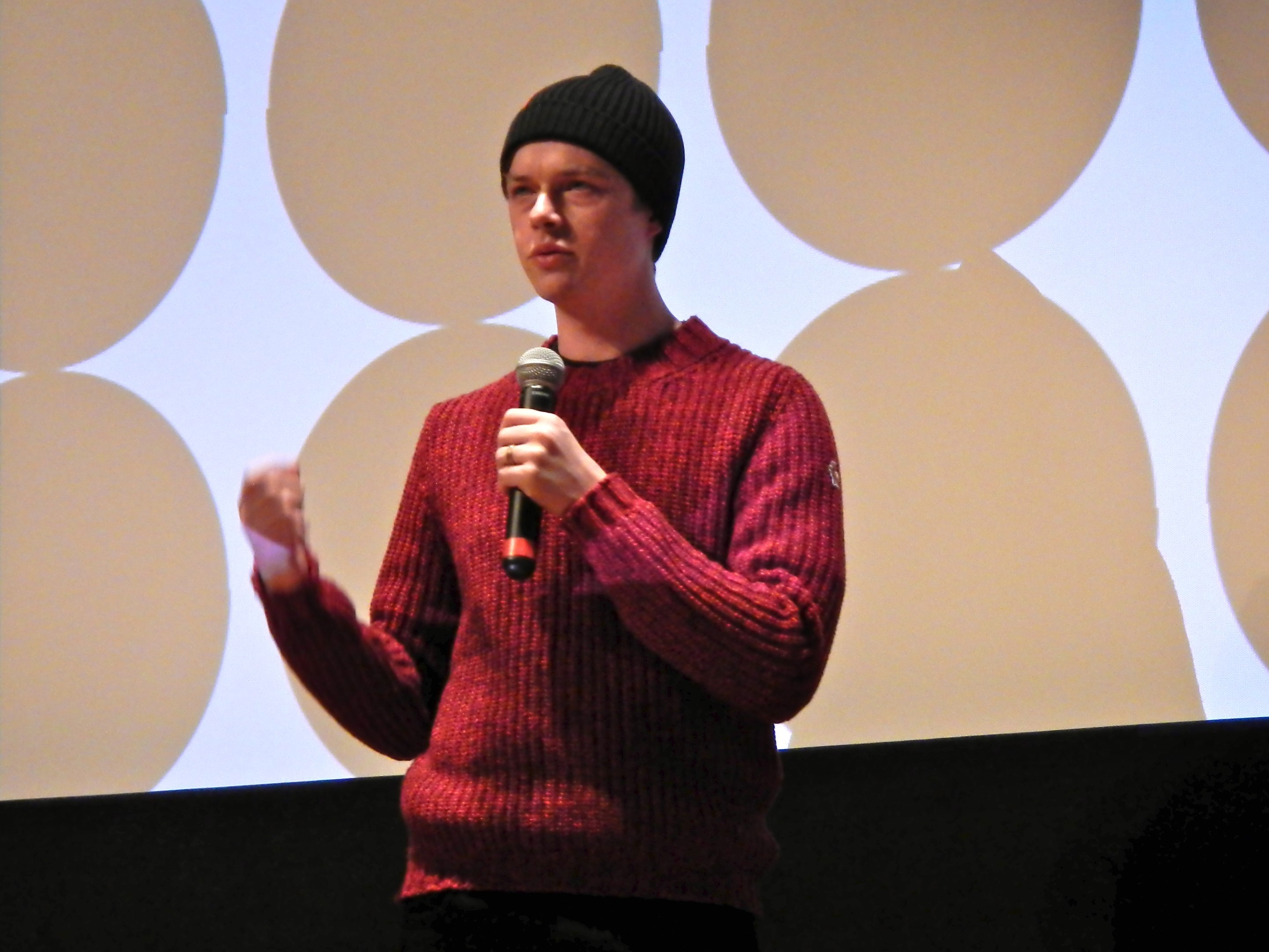 Dane DeHaan speaking at the 2014 Sundance Film Festival, for Life After Beth (2014) on January 21, 2014.